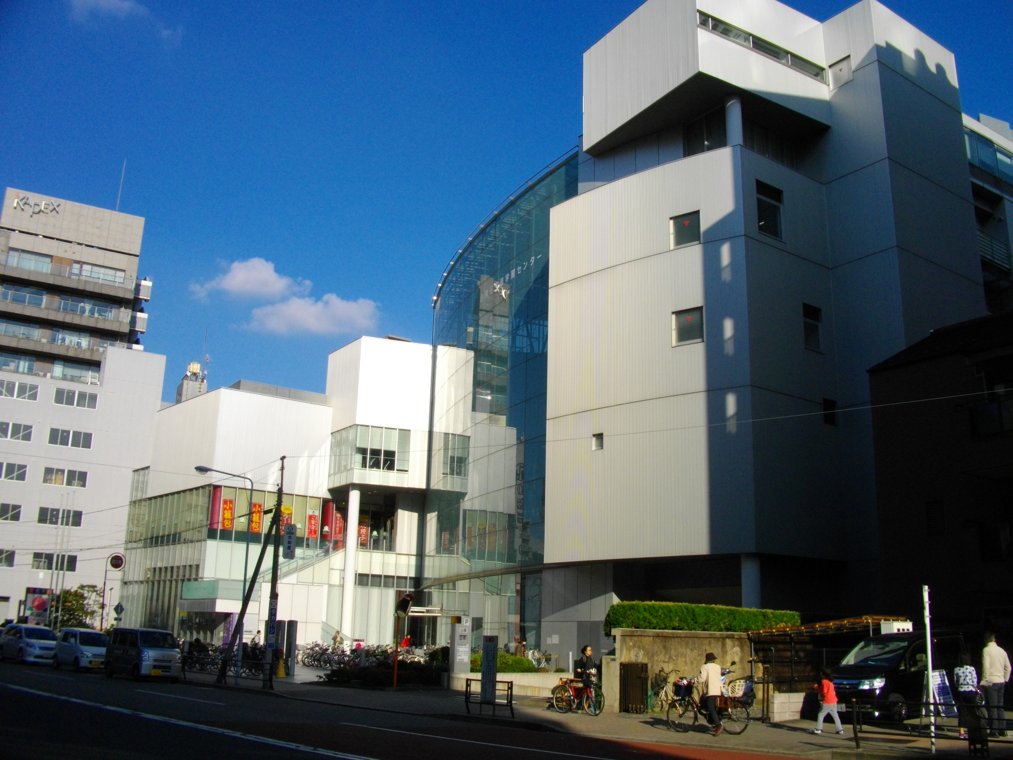 Taito-Ku Lifelong Learning Center